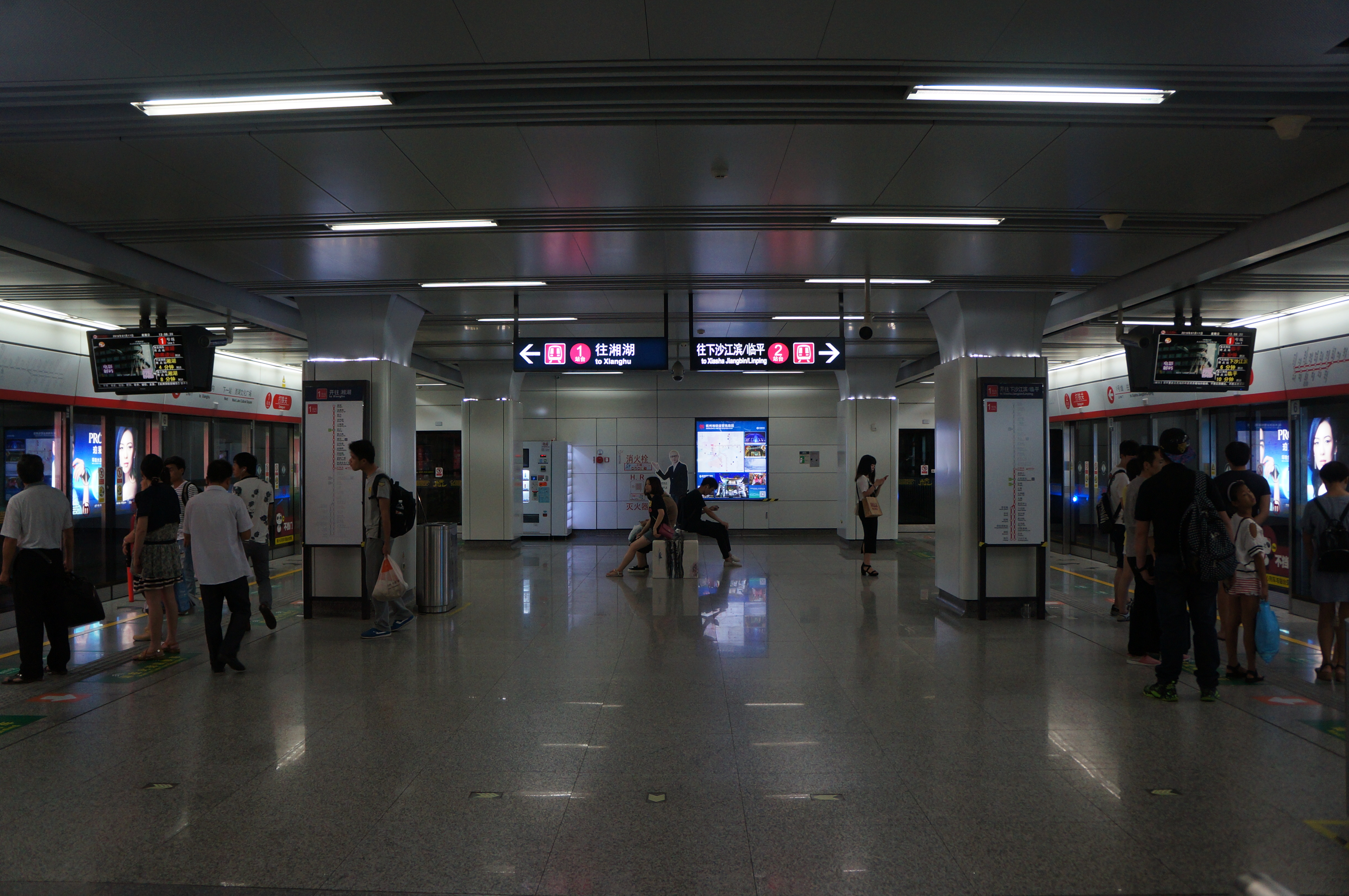 201607 Platform of Datieguan Station